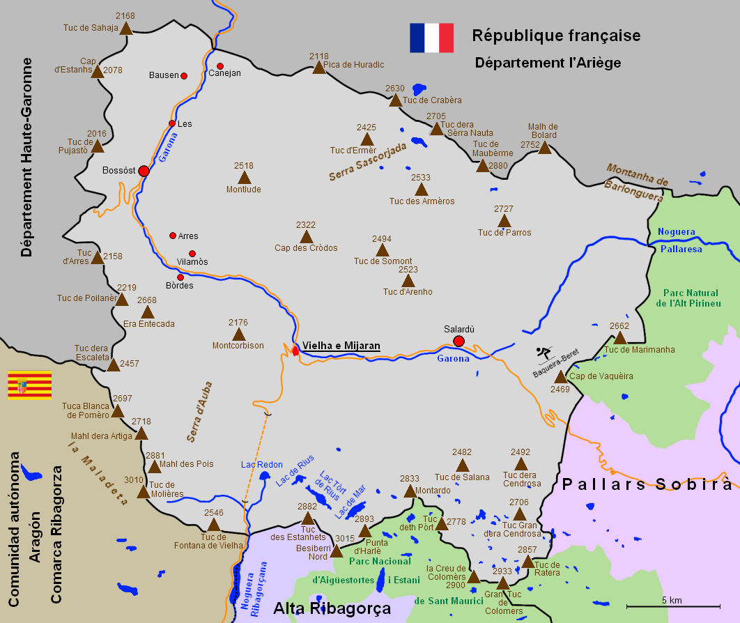 Map of the comarca Val d’Aran, Catalonia, Spain